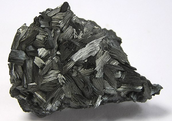 Pyrolusite Locality: Las Cruces, Doña Ana County, New Mexico, USA (Locality at ) Size: 4.5 x 3 x 1 cm. Pyrolusite (manganese oxide) is not typically seen in specimens that are actually aesthetic; but this find in New Mexico was an exception. Here, you see it having formed tightly stacked "books" of crystals that together create this shimmering, silvery-grey specimen.